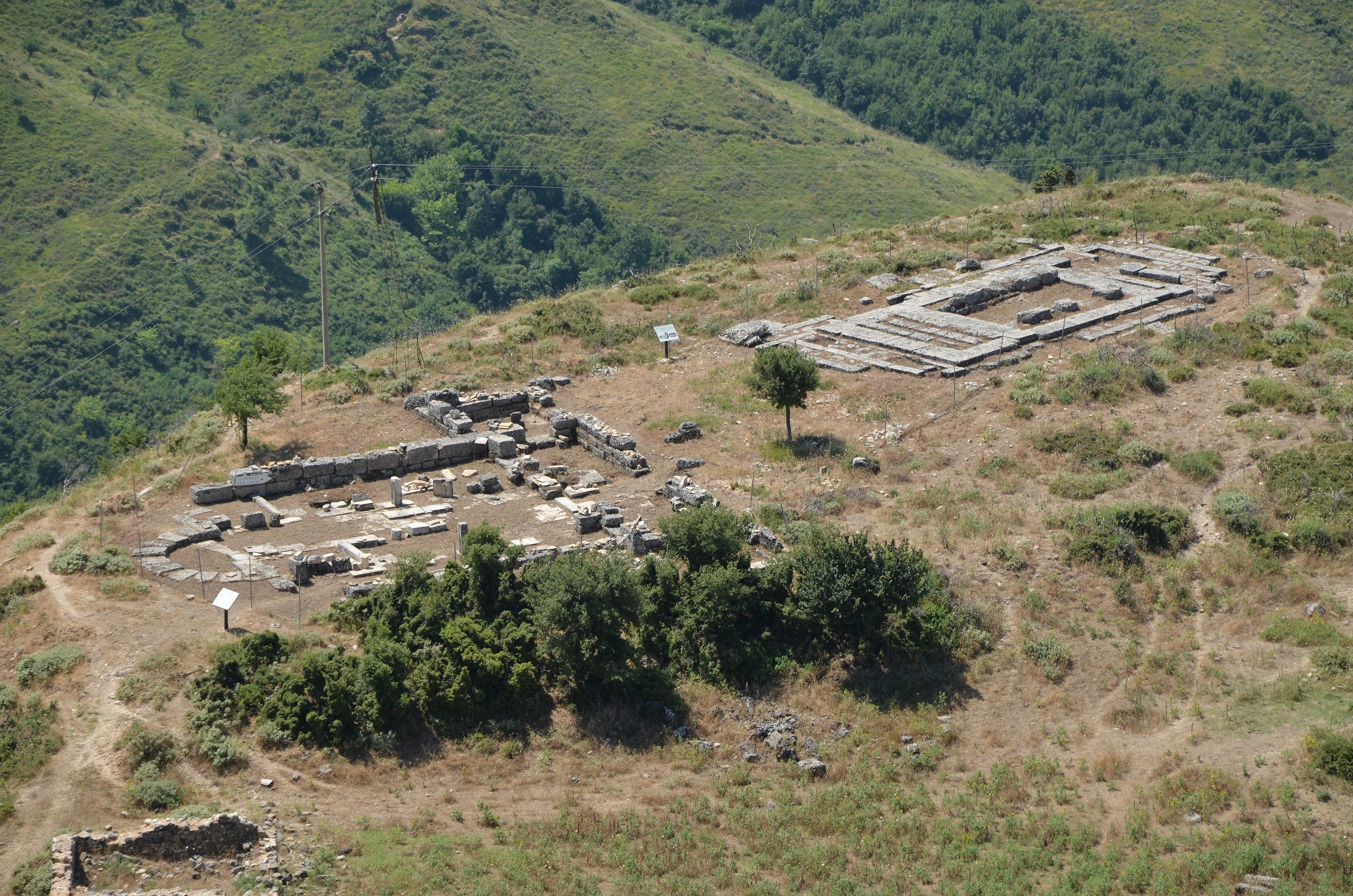 View of the Paloeochristian Basilica and the Temple of Aphrodite built in the 3rd century BC, Amantia, Albania